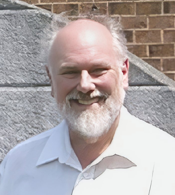 Fred Grassle, U.S. Oceanographer, outside Rutgers Institute of Marine and Coastal Sciences, June 2004 (Tony Rees photograph)